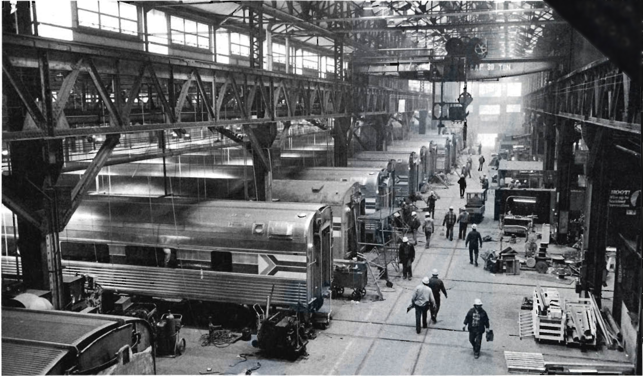 Amtrak cars inherited from its predecessor railroads undergoing conversion for head end power at Beech Grove in 1980